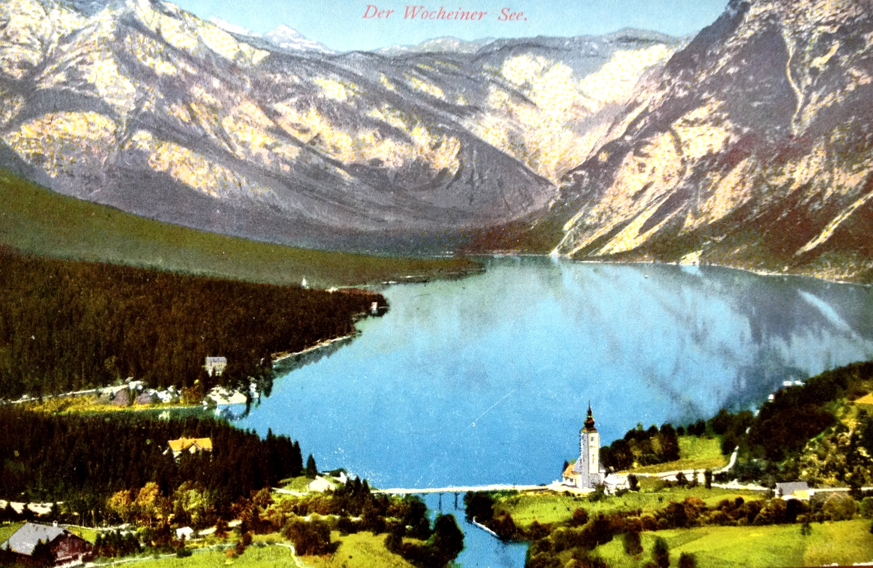 Postcard of Bohinj and Triglav